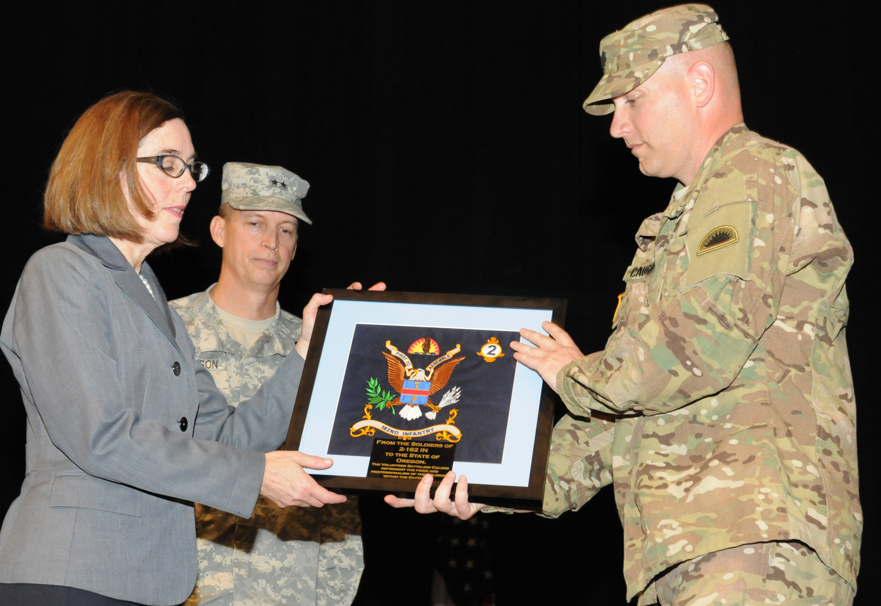 Lt. Col. Scot Caughran (right), commander of the 2nd Battalion, 162nd Infantry Regiment (2-162), presents Oregon Secretary of State Kate Brown with the battalion's colors while Maj. Gen. Daniel R. Hokanson, Adjutant General, Oregon, looks on during a mobilization ceremony at the Salem Armory Auditorium, June 7, in Salem, Ore . The 2-162 Infantry Battalion is scheduled to replace units in Afghanistan as part of the regular rotation cycle of forces. (Photo by Sgt. Cory Grogan, 115th Mobile Public Affairs Detachment)